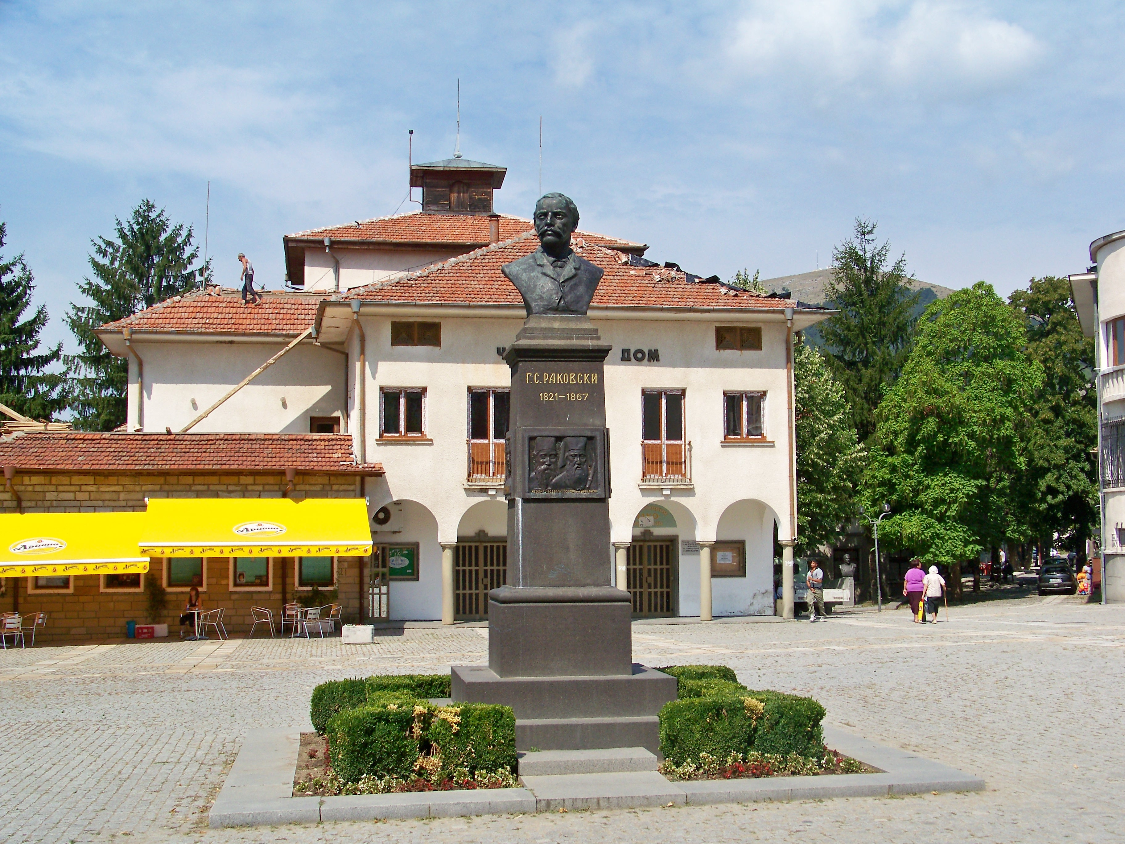 Kotel, Sliven Province, Bulgaria: chitalishte and bust of Georgi Rakovski with reliefs of local revivalists.